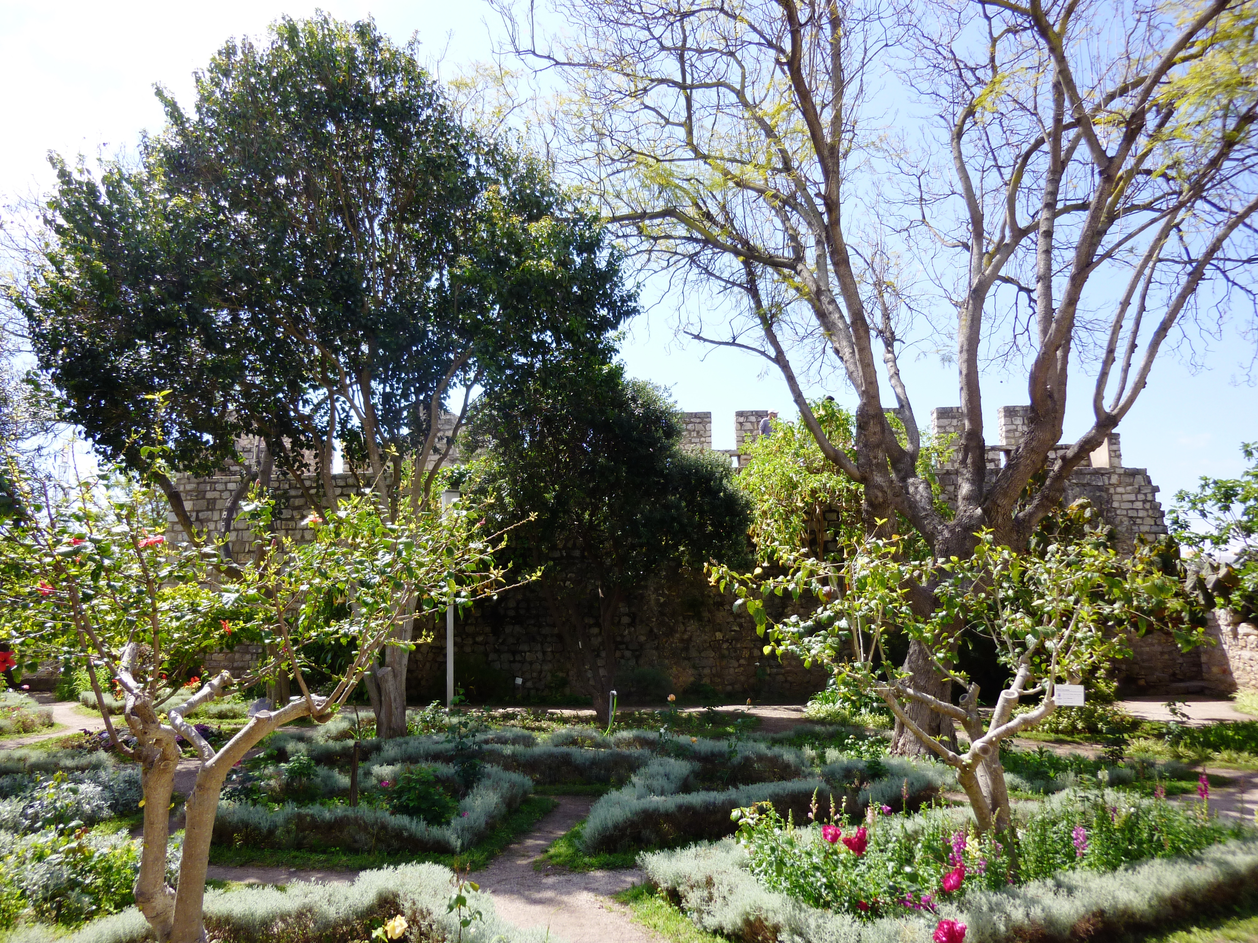 Garden in the castle of Tavira